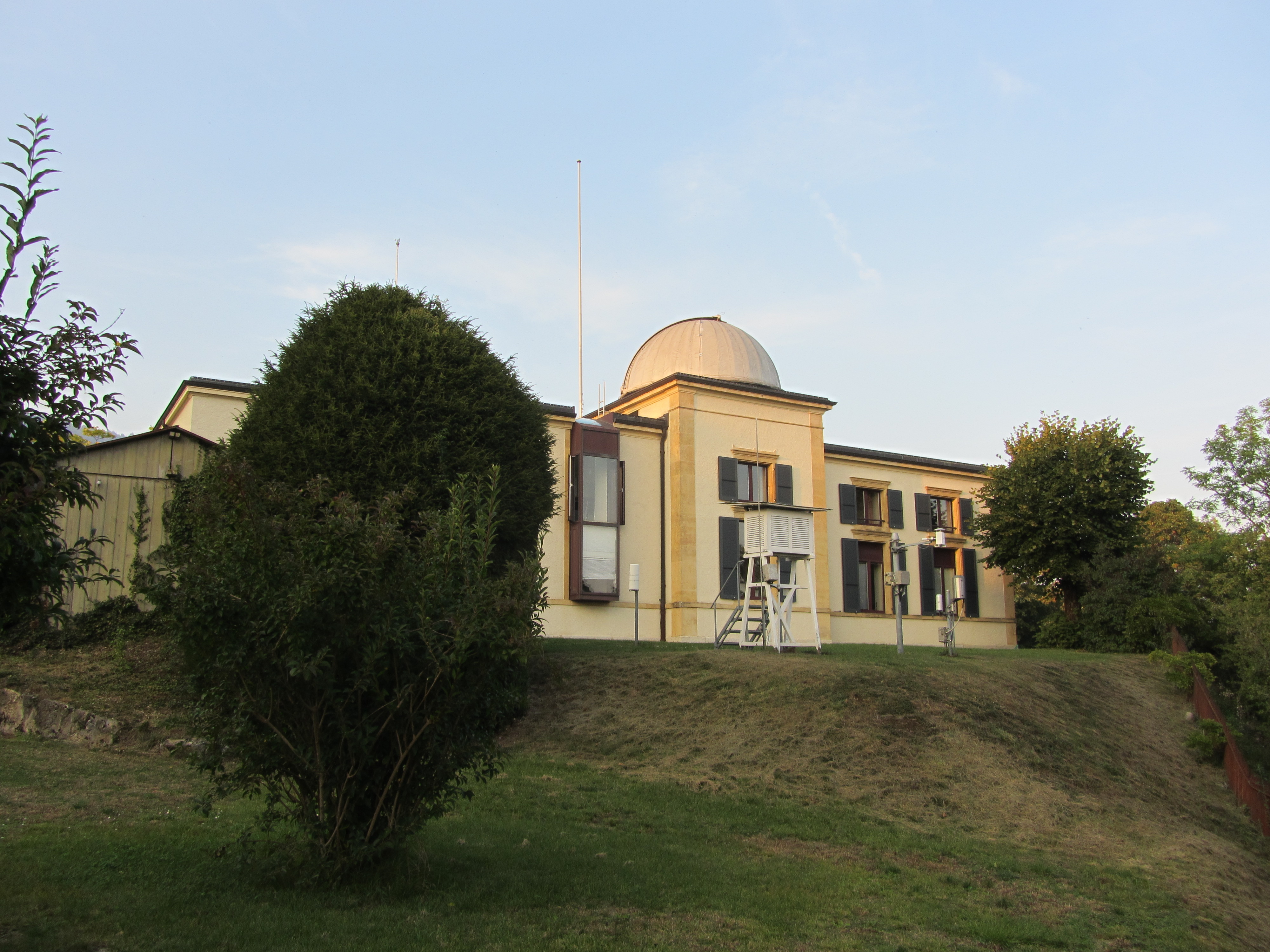 Neuchâtel, astronomical observatorie, CSEM